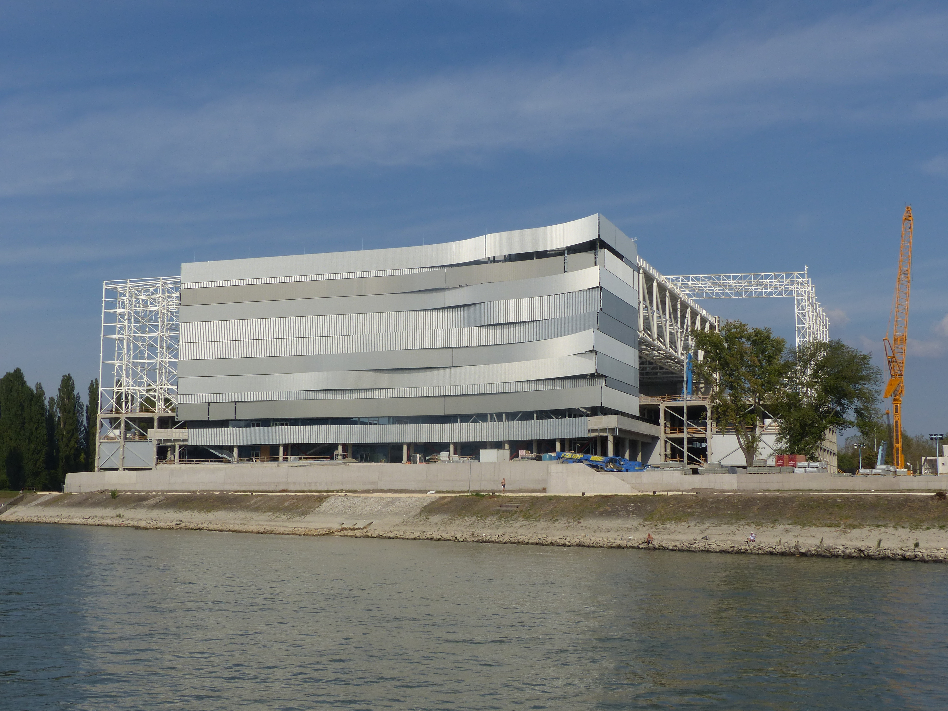 Taken on the 3rd of September, 2016. Dagály.